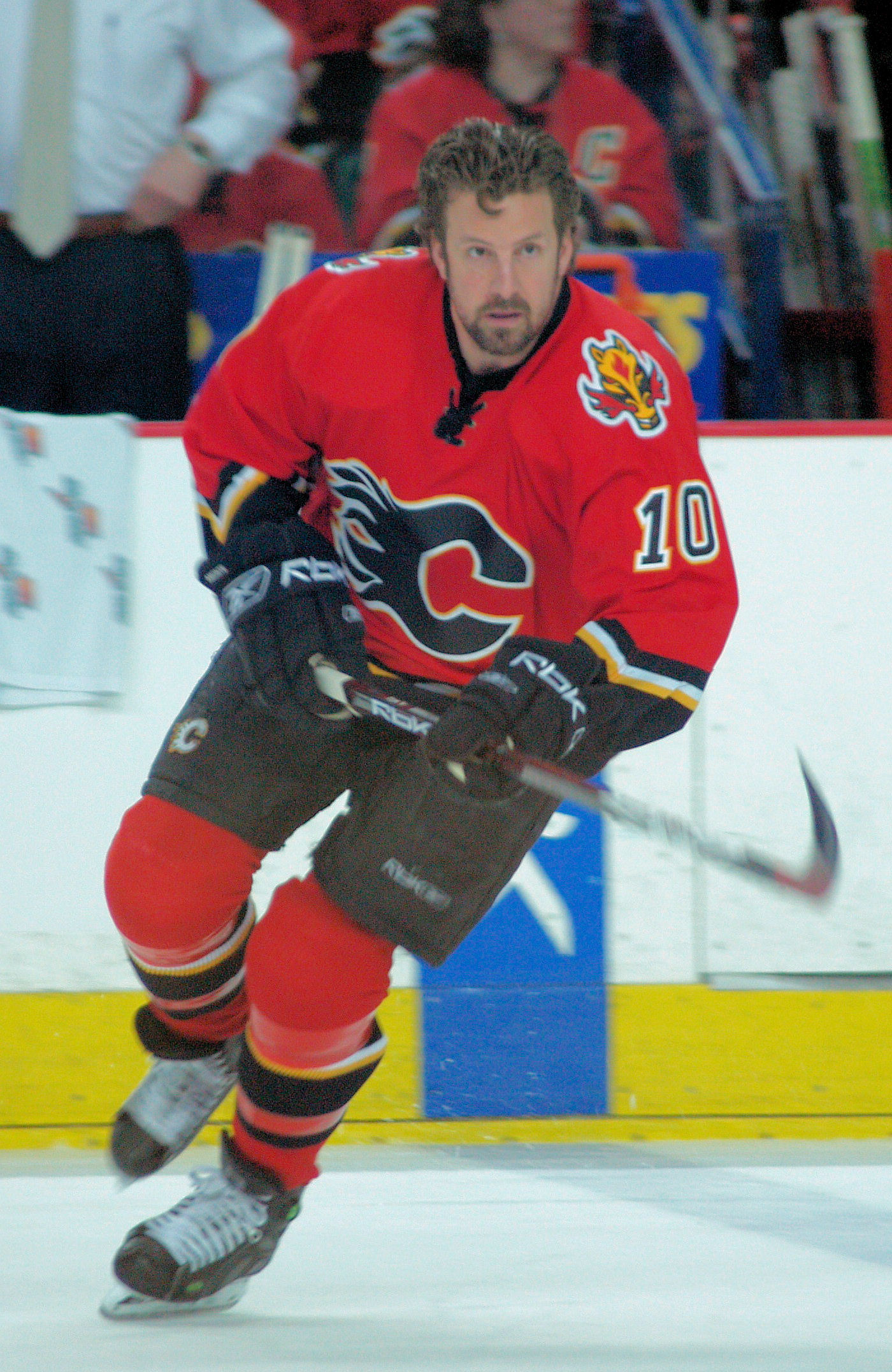 Tony Amonte of the Calgary Flames in the pre-game skate.